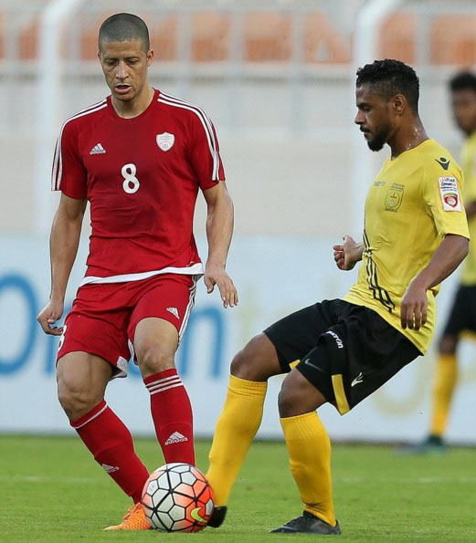 Rafael da Silva Nascimento in a match against Fanja Club of Oman. 13 January 2016 Al-Seeb Stadium, Al-Seeb, Oman Photographer email id